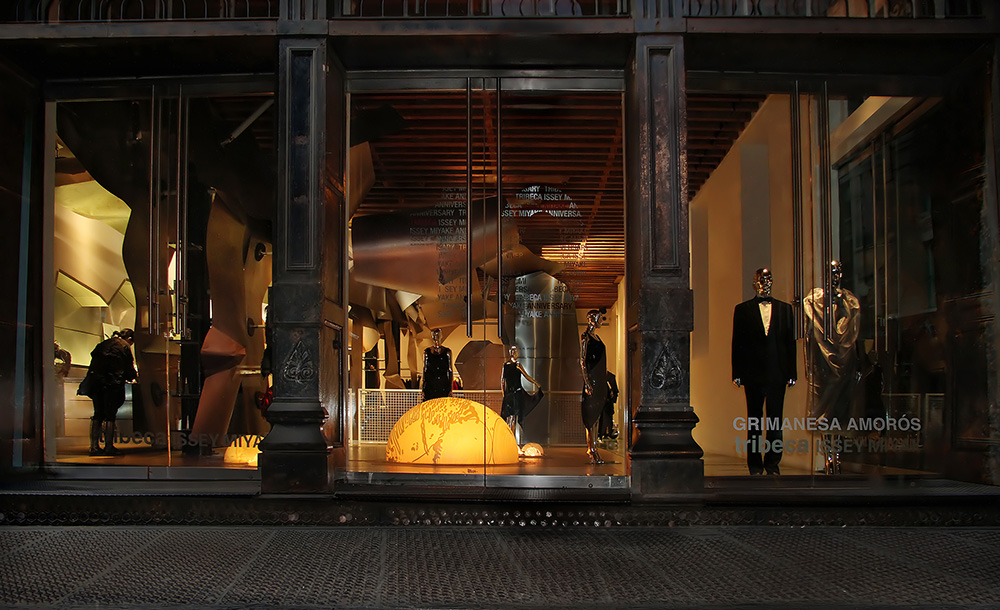 "UROS" at Tribeca ISSEY MIYAKE by Grimanesa Amoros 2011